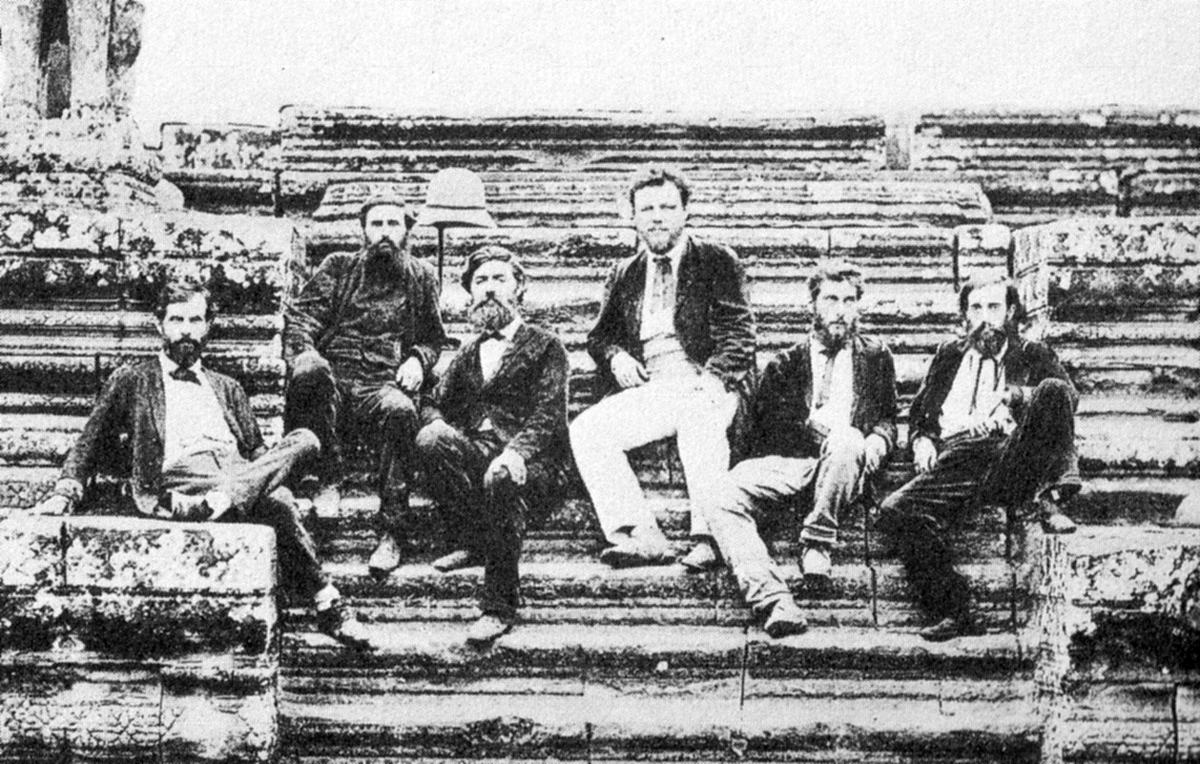 The French expedition organizedn 1868 to explore the Mekong pauses on the steps of Angkor Vat.